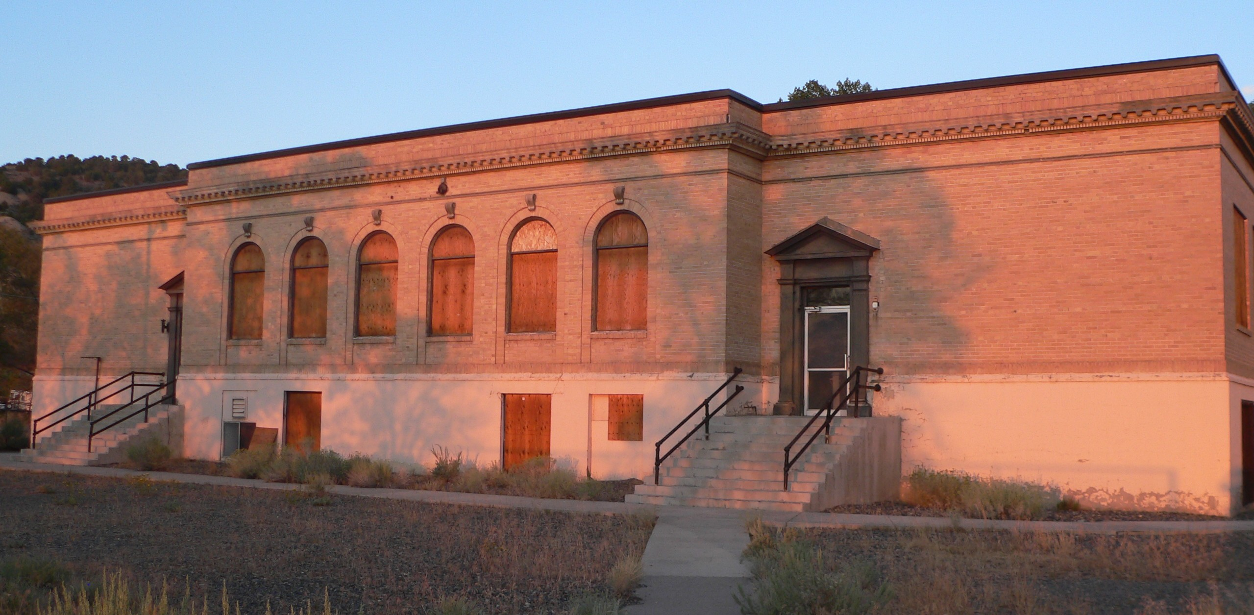 Lander County High School in Austin, Nevada: west side (front) of 1926 school building. Photo taken near sunset, so colors may not be true.